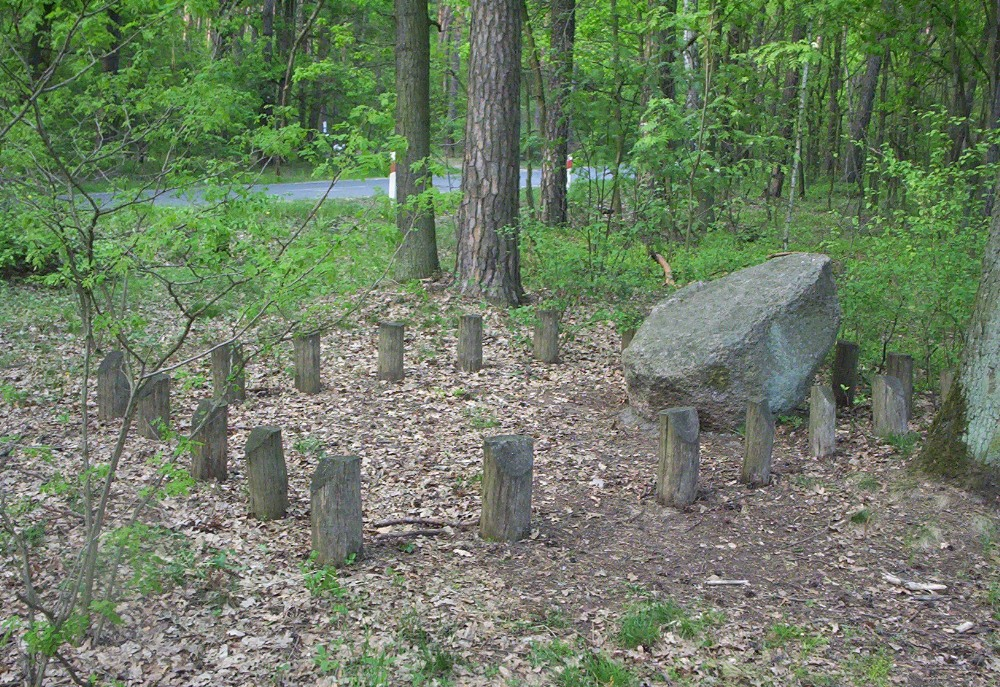 Stephan's Stone (monument) in Chojnowski Park Krajobrazowy, Poland.